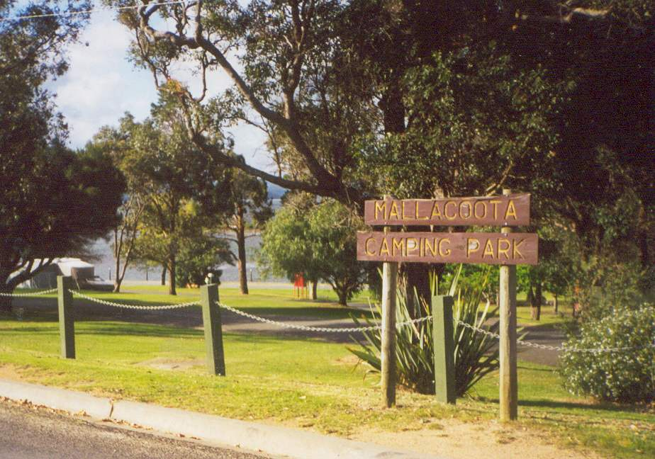 Mallacoota camping grounds, Victoria, Australia I took the photo Cfitzart 01:50, 27 August 2005 (UTC)